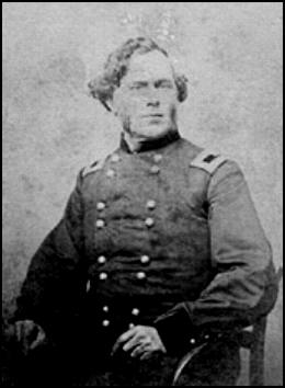 photo of James Blair Steedman (1817-1883)